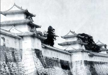 Osaka Castle rampart before the 1868 fire.